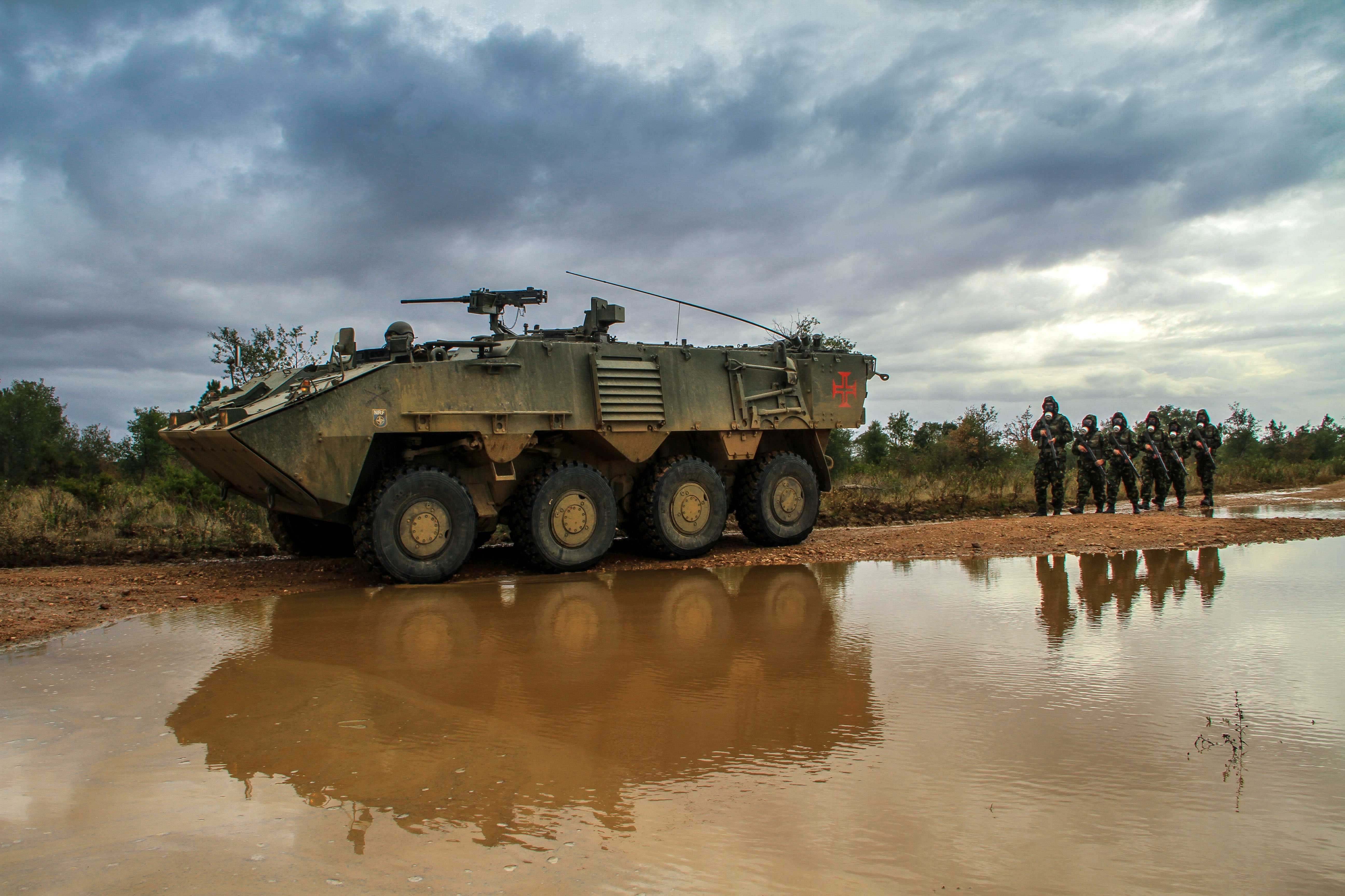 Portuguese Infantry Battalion Operating in a NBQR Environment . The Polish forces made a personel and systems decontamination . we can see in these photos Portuguese soldiers from Infantry Battalion and Polish soldiers making the decontamination. The vehichles showed at the photos are the Pandur 8x8 .